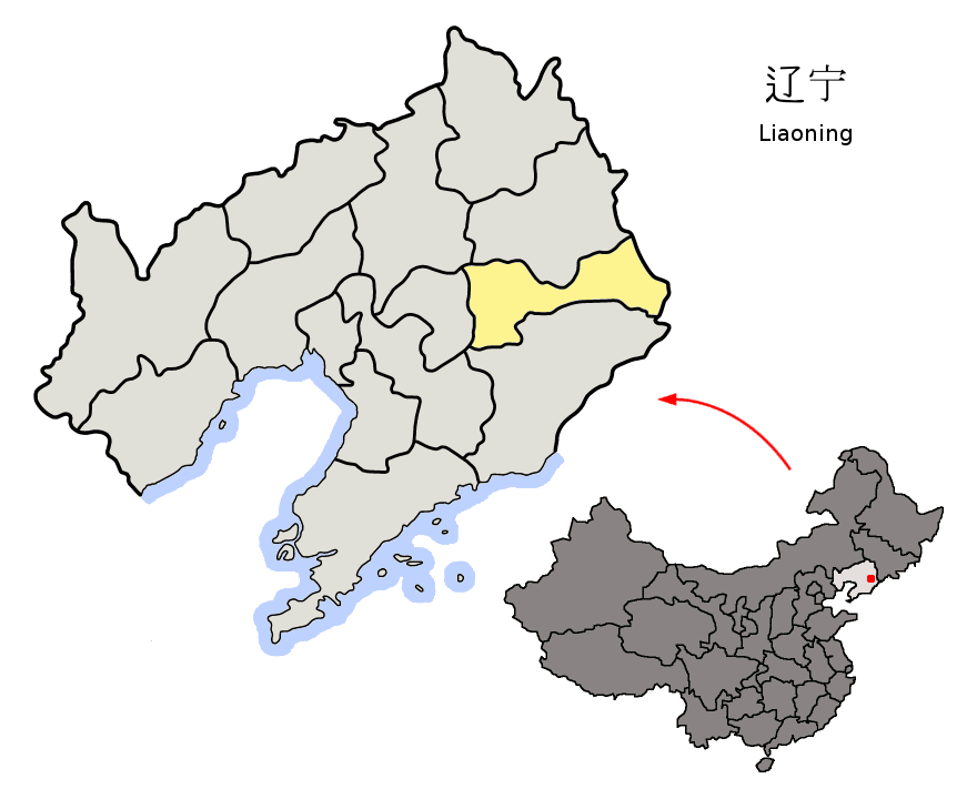 Location of Benxi Prefecture (yellow) within Liaoning Province of China Map drawn in november 2007 using various sources, mainly : Liaoning Province administrative regions GIS data: 1:1M, County level, 1990 Liaoning Counties map from